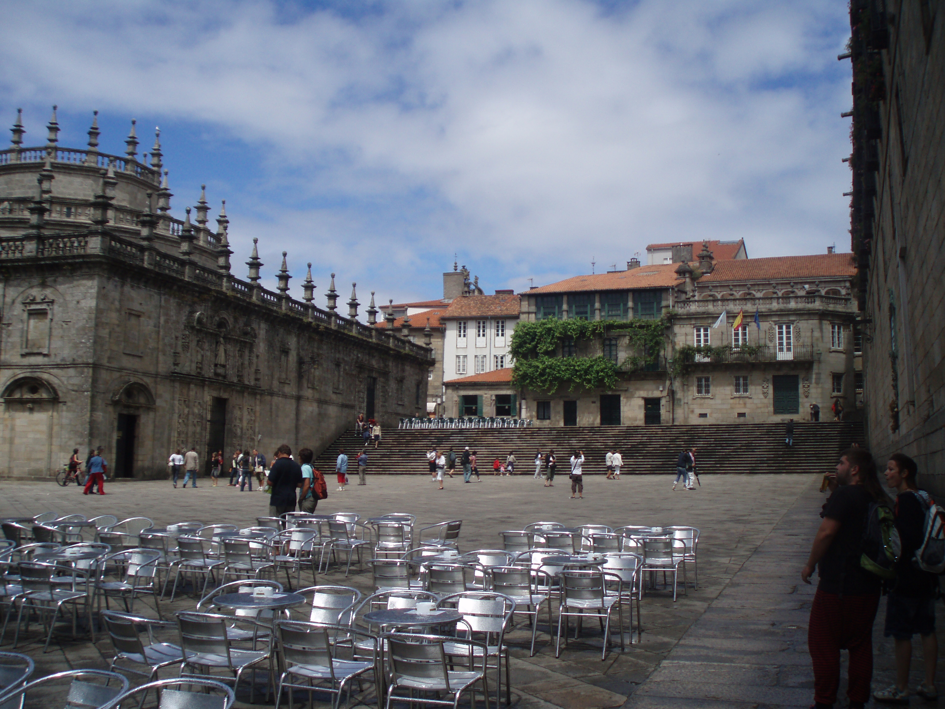 Quintana square, in Santiago de Compostela. Spain.